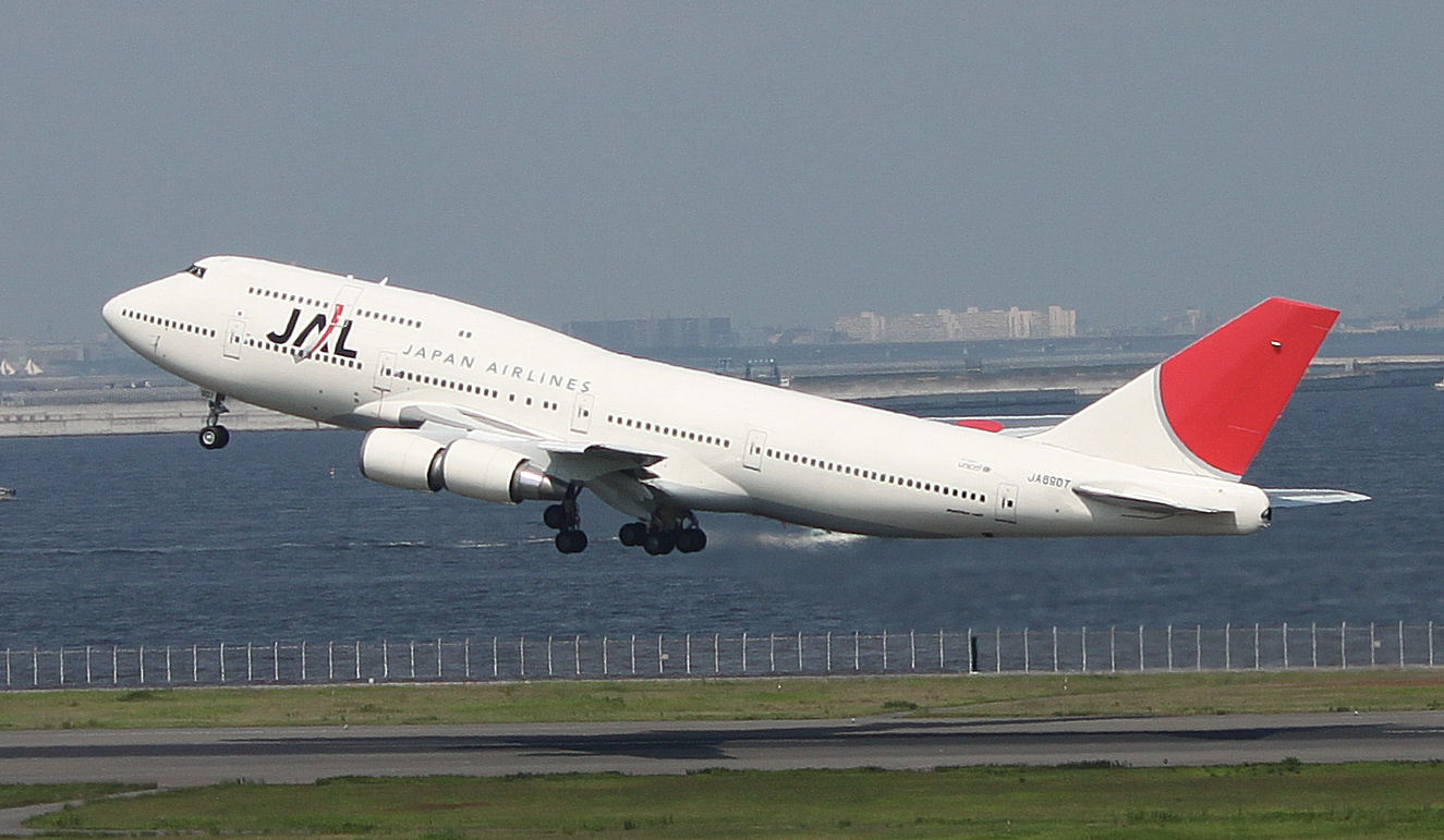 JAL Boeing 747-400D, JA8907, take off, Haneda Airport Tokyo.